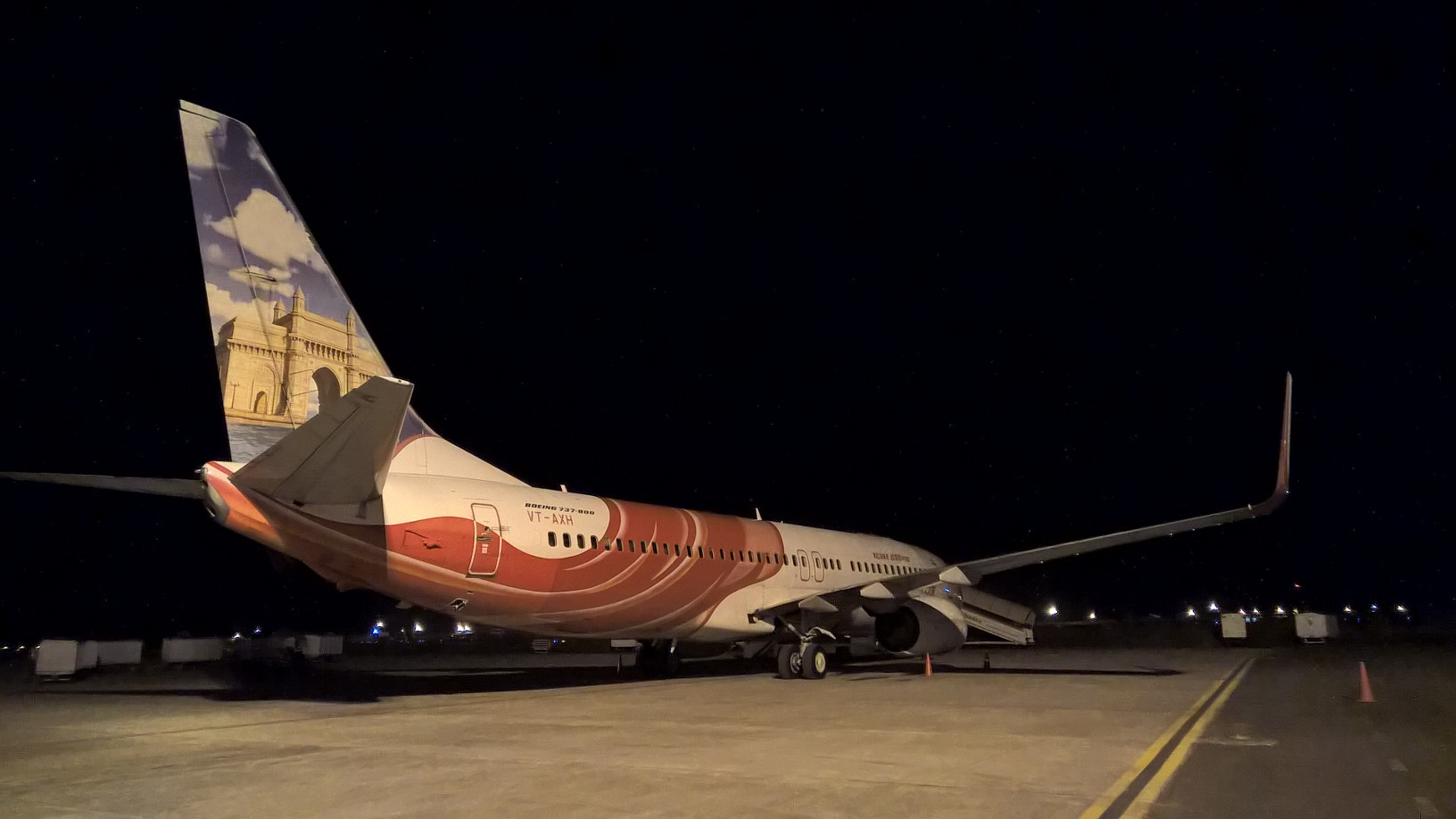 Air India Express Flight Parked at Trivandrum Airport